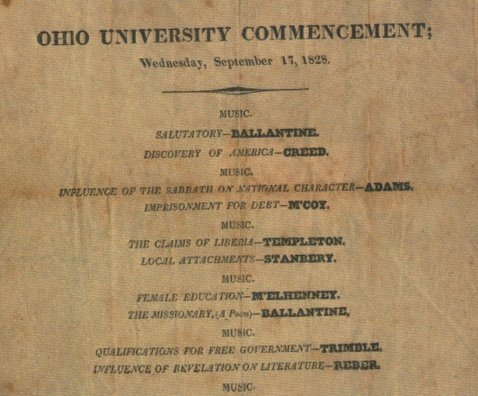 A commencement ticket for the 1828 Ohio University commencement excercise featuring the first African American graduate, John Newton Templeton